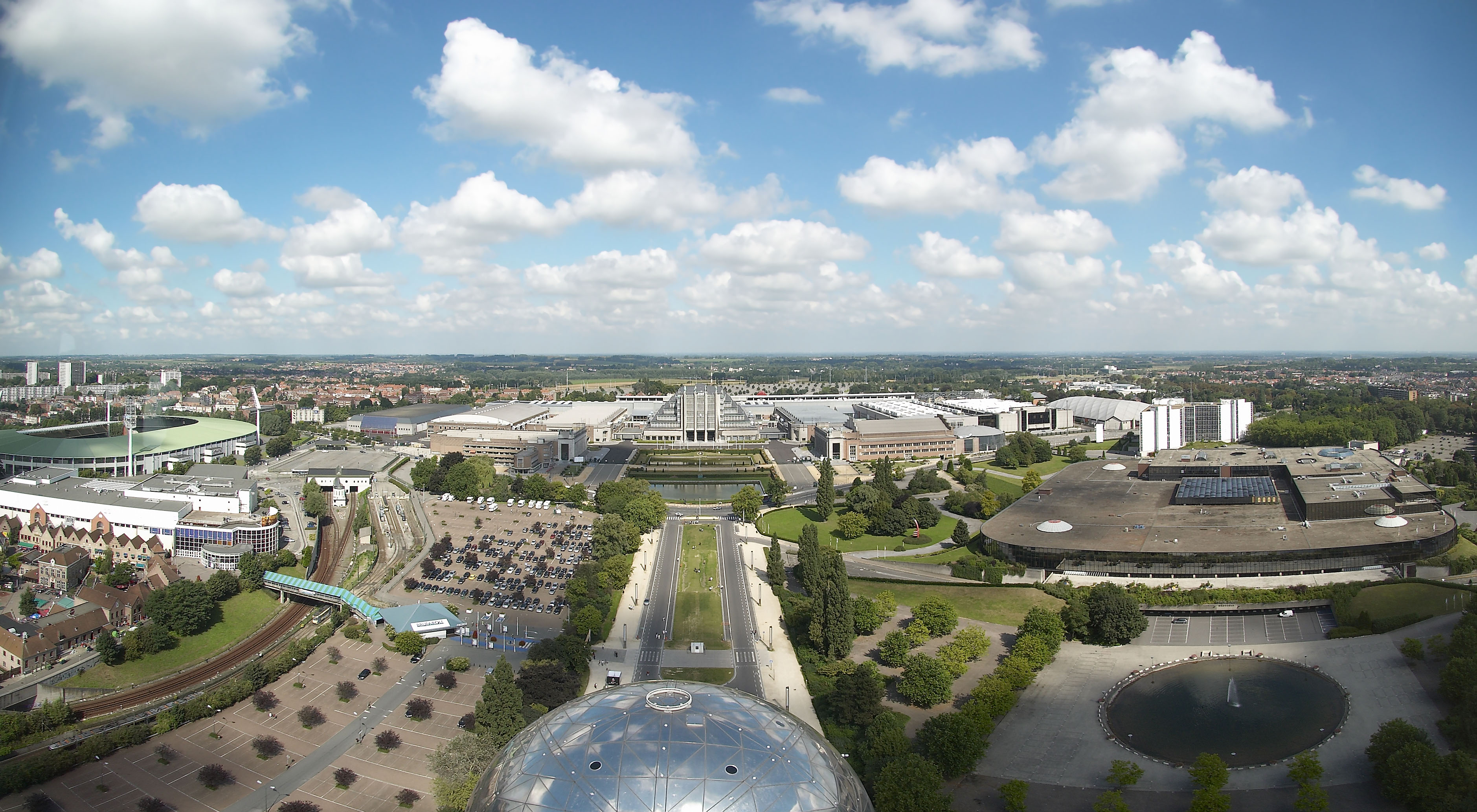 Panoramic view of Brussels seen from the crossing Eeuwfeestlaan - Atomiumlaan at about 90 m high looking direction NW